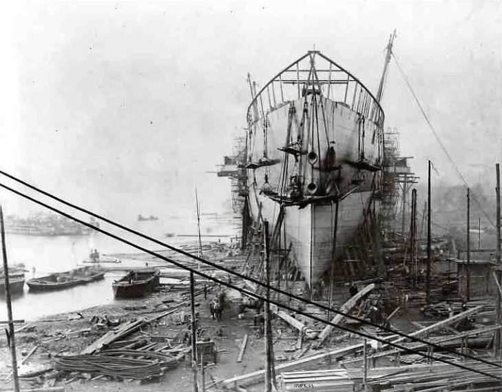 The building of the 'Great Eastern': bow view of the ship and yard